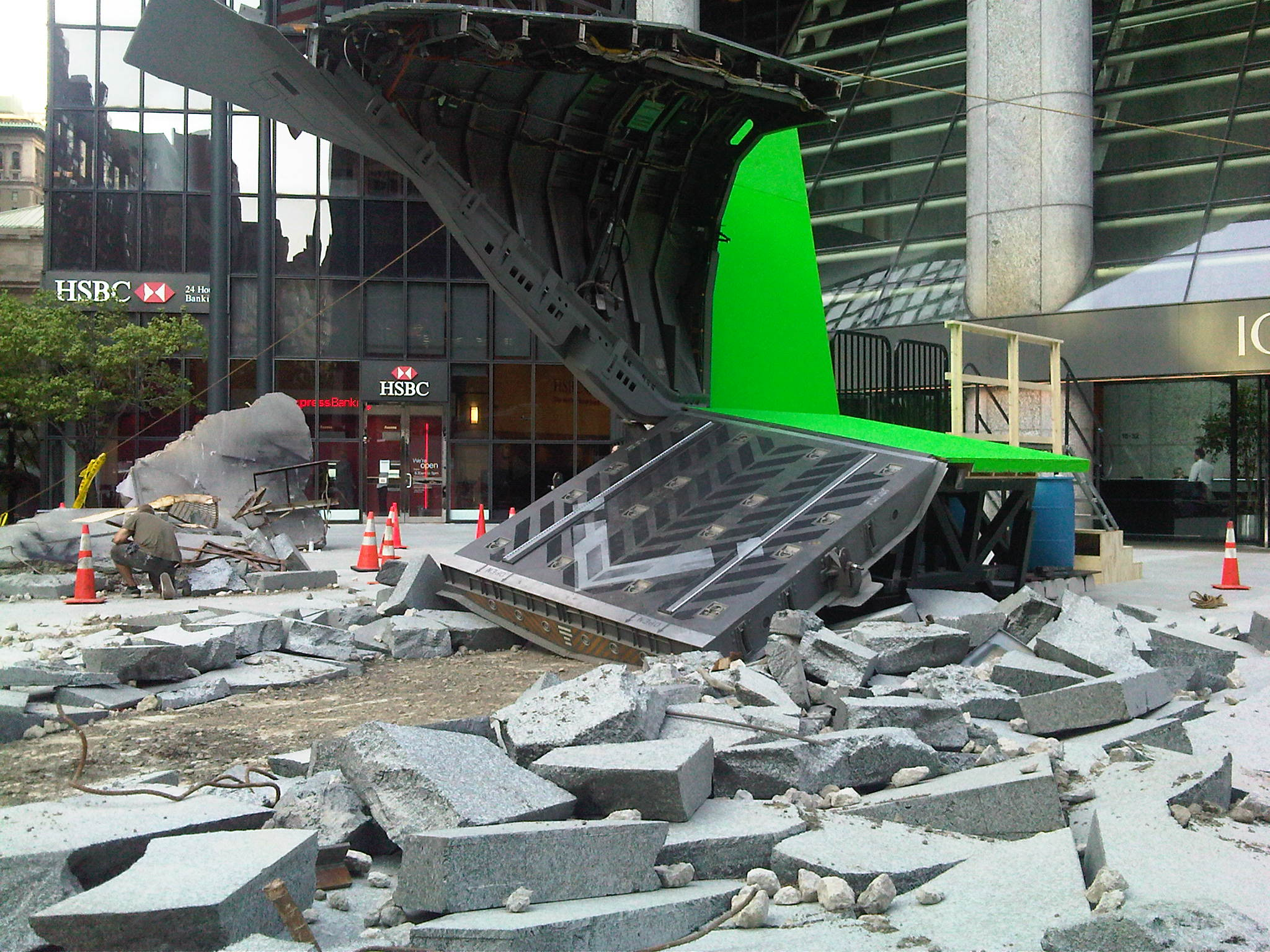 The Avengers being filmed in front of 101 Park Ave.